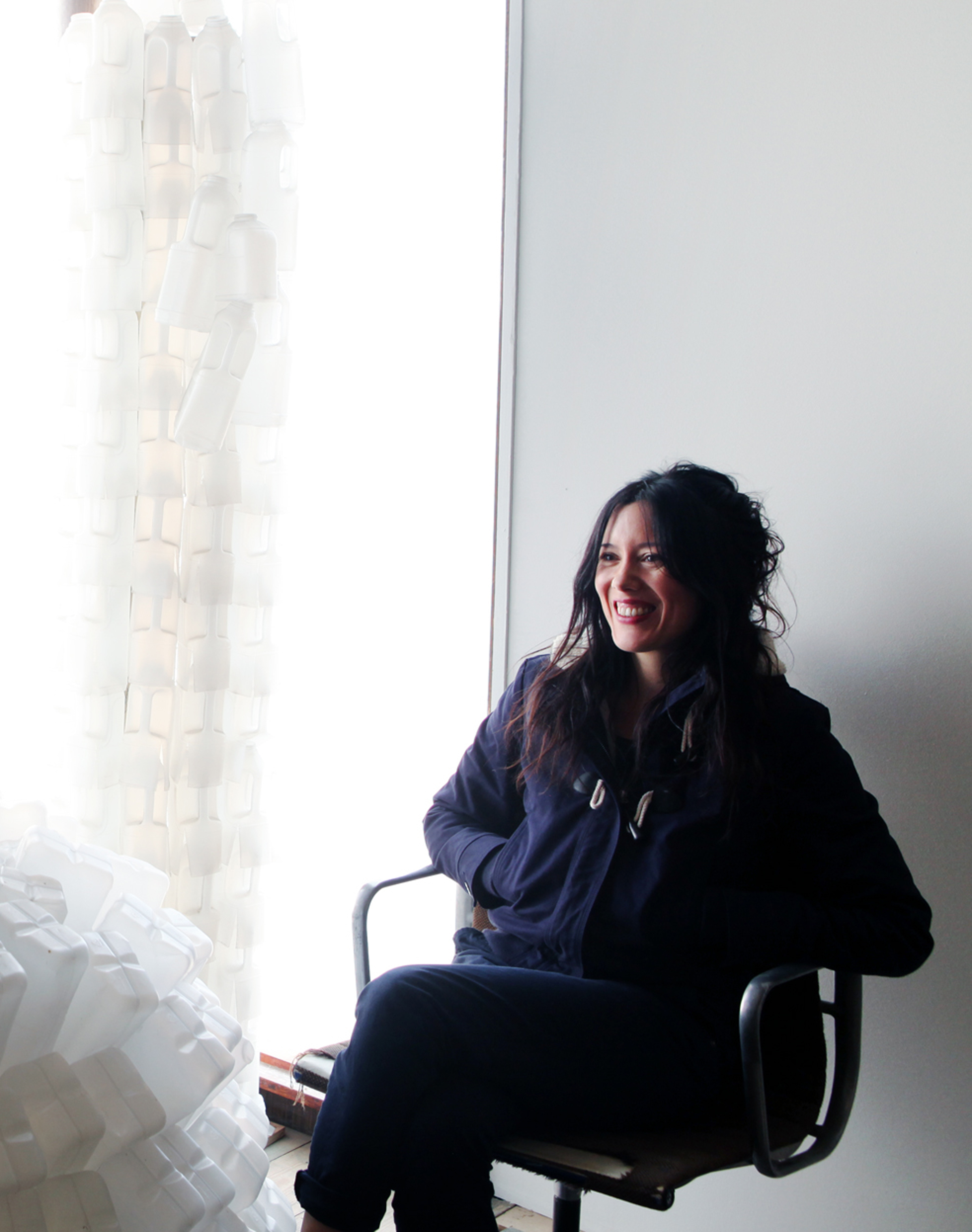 Gayle Chong Kwan by Georgia Kuhn, 2013